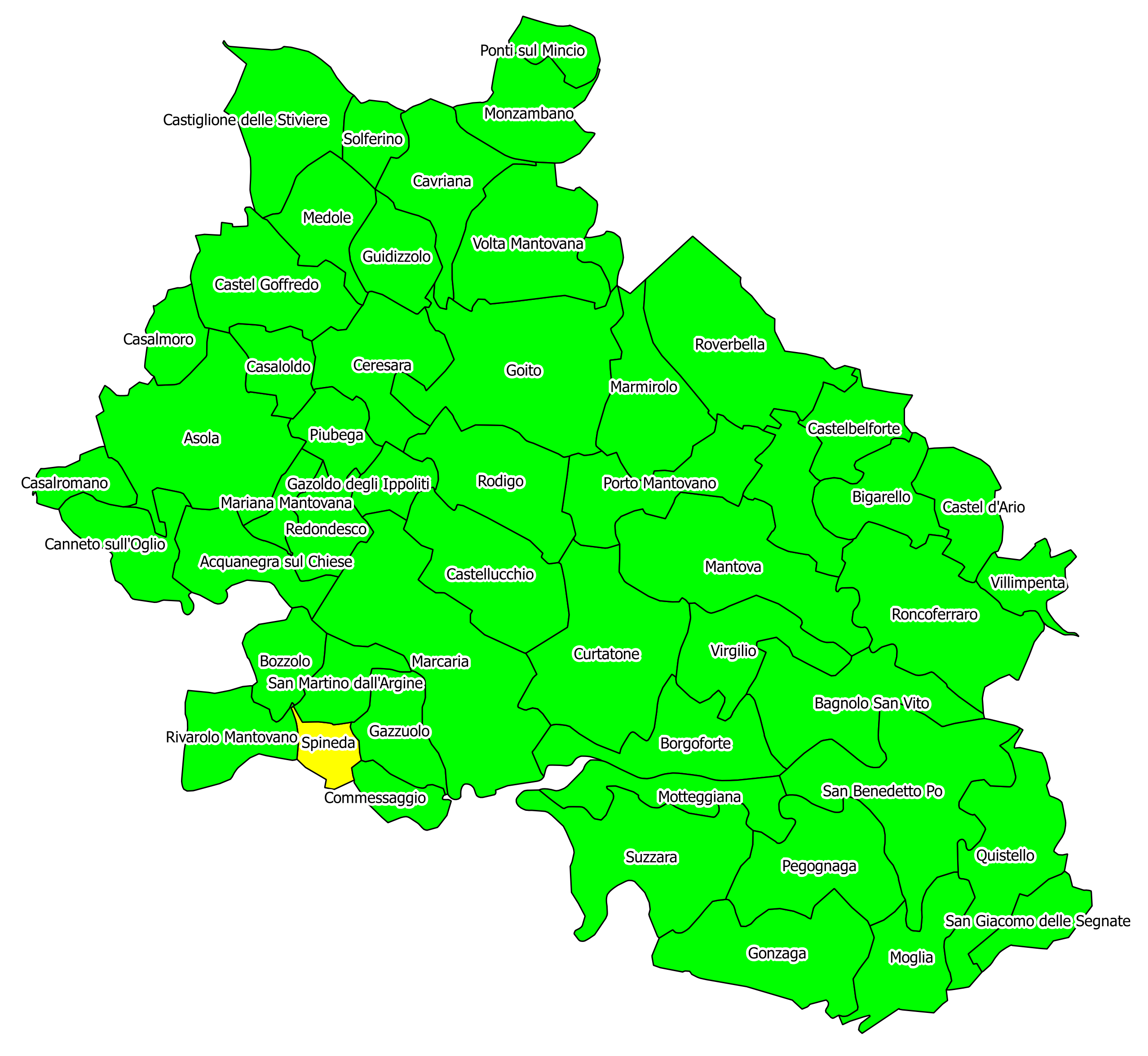 made with qgis